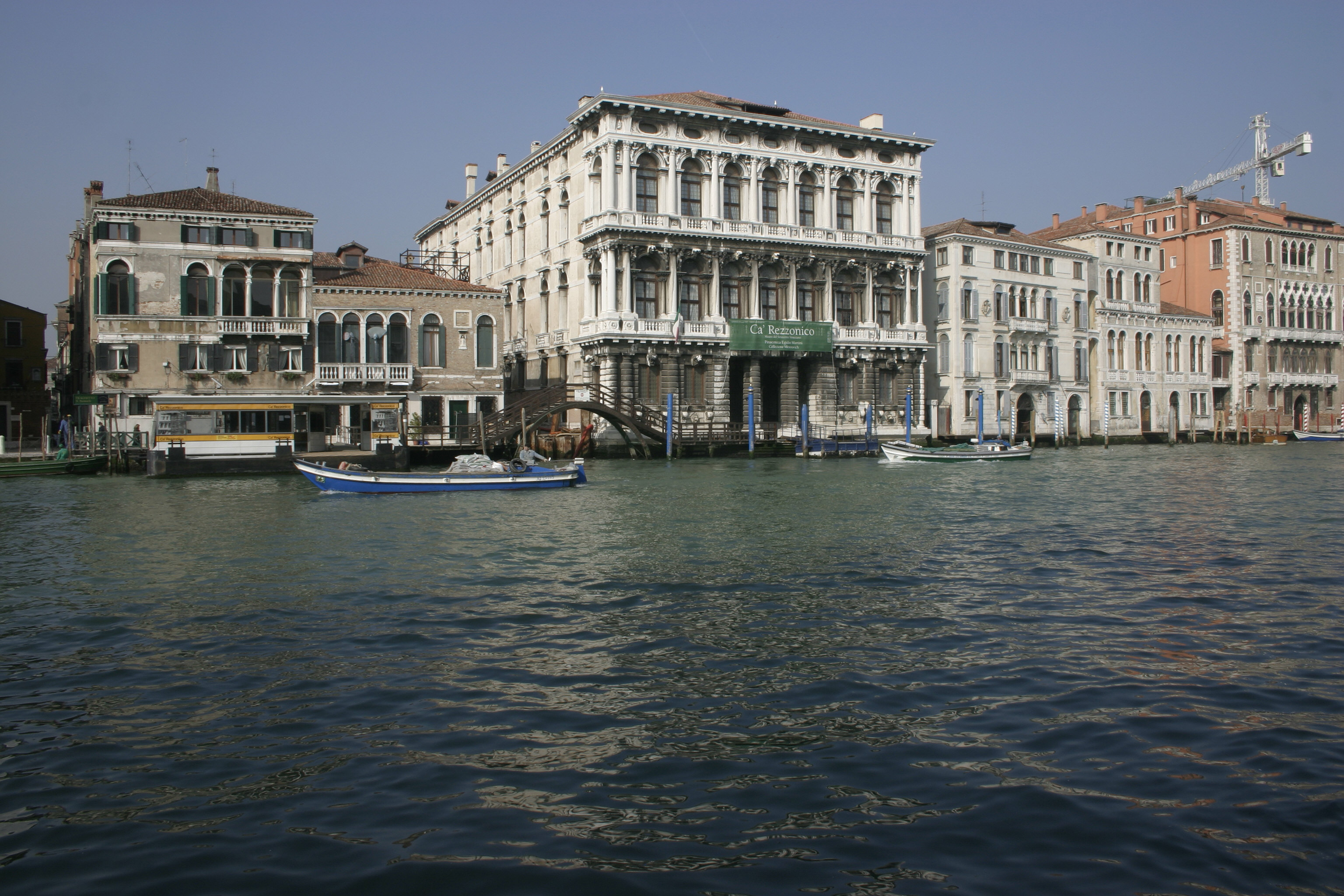 Palace Ca' Rezzonico in Venice – Grand Canal